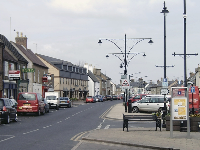 Great Whyte, Ramsey Taken from near the clock tower. Great Whyte iself is notable for being eighty feet wide. Its great width was the result of the culverting of the open waterway once navigable by small boats that used to run down the centre of this thoroughfare.